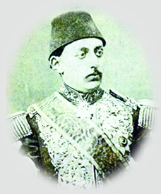 Picture of Sultan Murat V